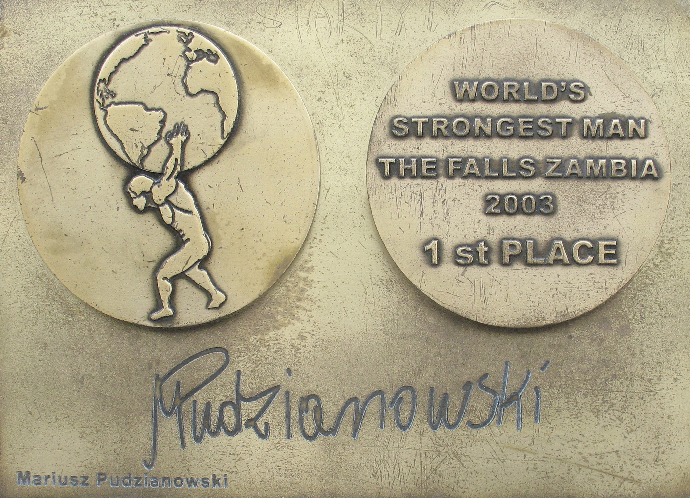 Mariusz Pudzianowski medal & autograph in Avenue of Sport Stars Dziwnów